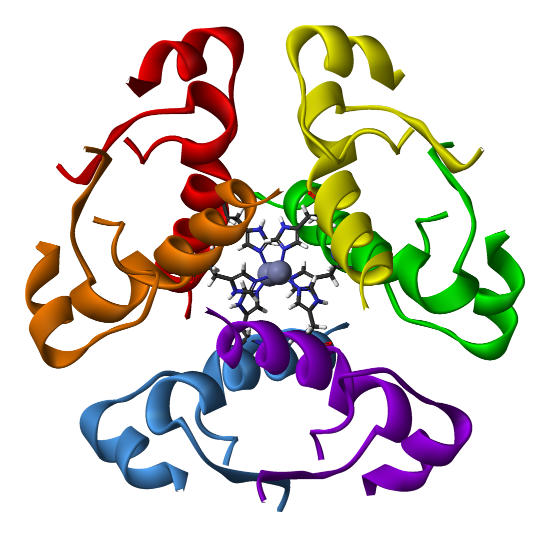 Ribbon diagram of the 2-Zn insulin hexamer. The insulin monomer is the active hormone, but the hexamer is the storage form. Each of the 6 monomers is shown in a different color, and the 6 histidine side-chains that bind the hexamer-stabilizing zincs are detailed as stick-figures. The spirals are alpha helices and the arrows are beta strands.